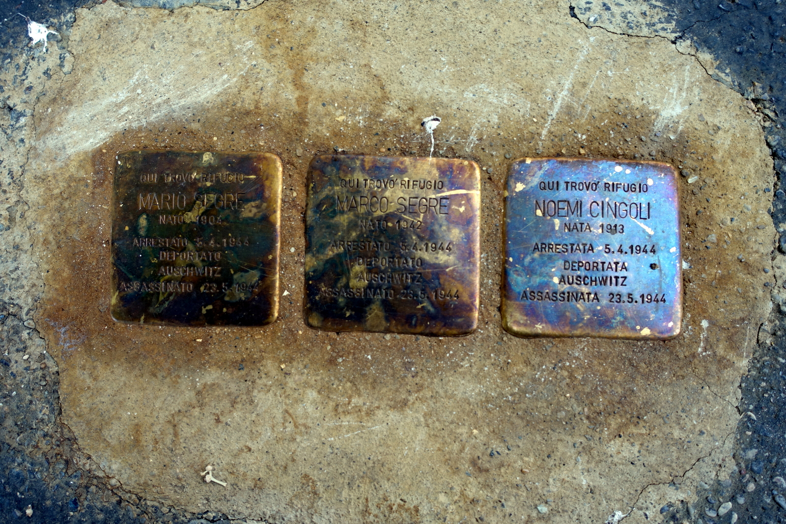 "Stumbling blocks" remembering Mario Segre, Noemi Cingoli and their infant son. Outside the Swedish Institute in Rome, where they were harbored from 1943, and captured while walking outside in April 1944. Killed in Auschwitz May 23, 1944.